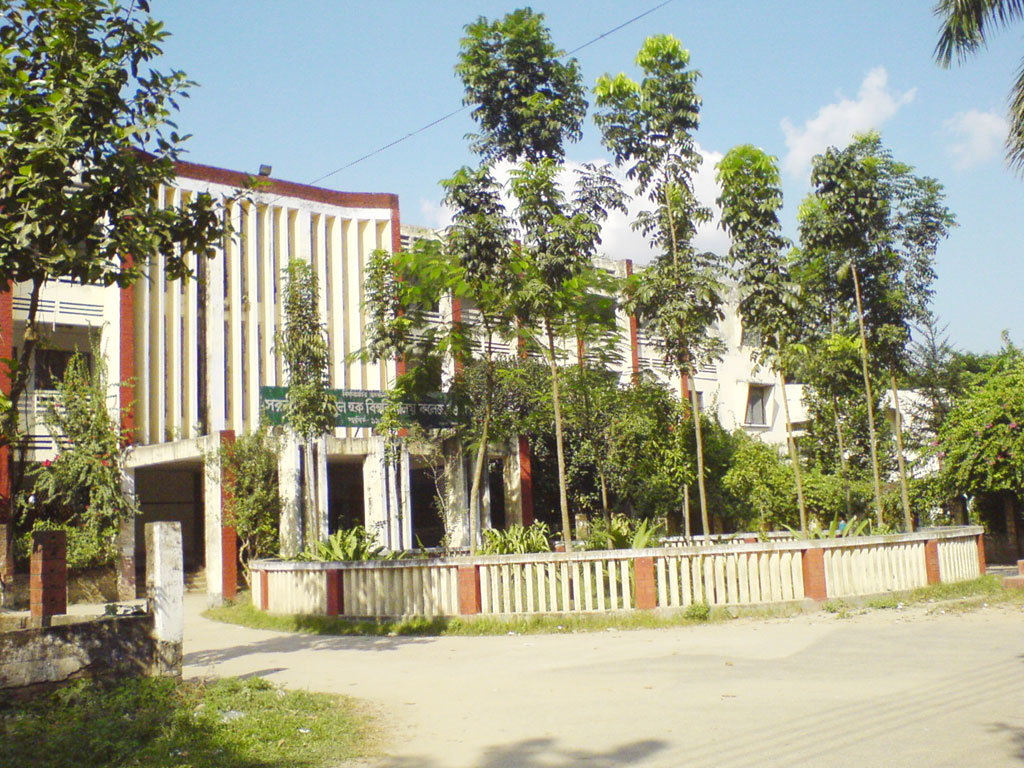 This is Govt. Azizul Haque College situated at Bogra.